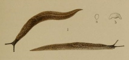 Tandonia budapestensis Hazay, 1880, Milacidae, Pulmonata, Gastropoda, orig. figure of Julius Hazay: Die Molluskenfauna von Budapest. Malakozoologische Blätter (Neue Folge) 3 ("1881") : 1-69, 160-183, pl. 1, fig. 1.